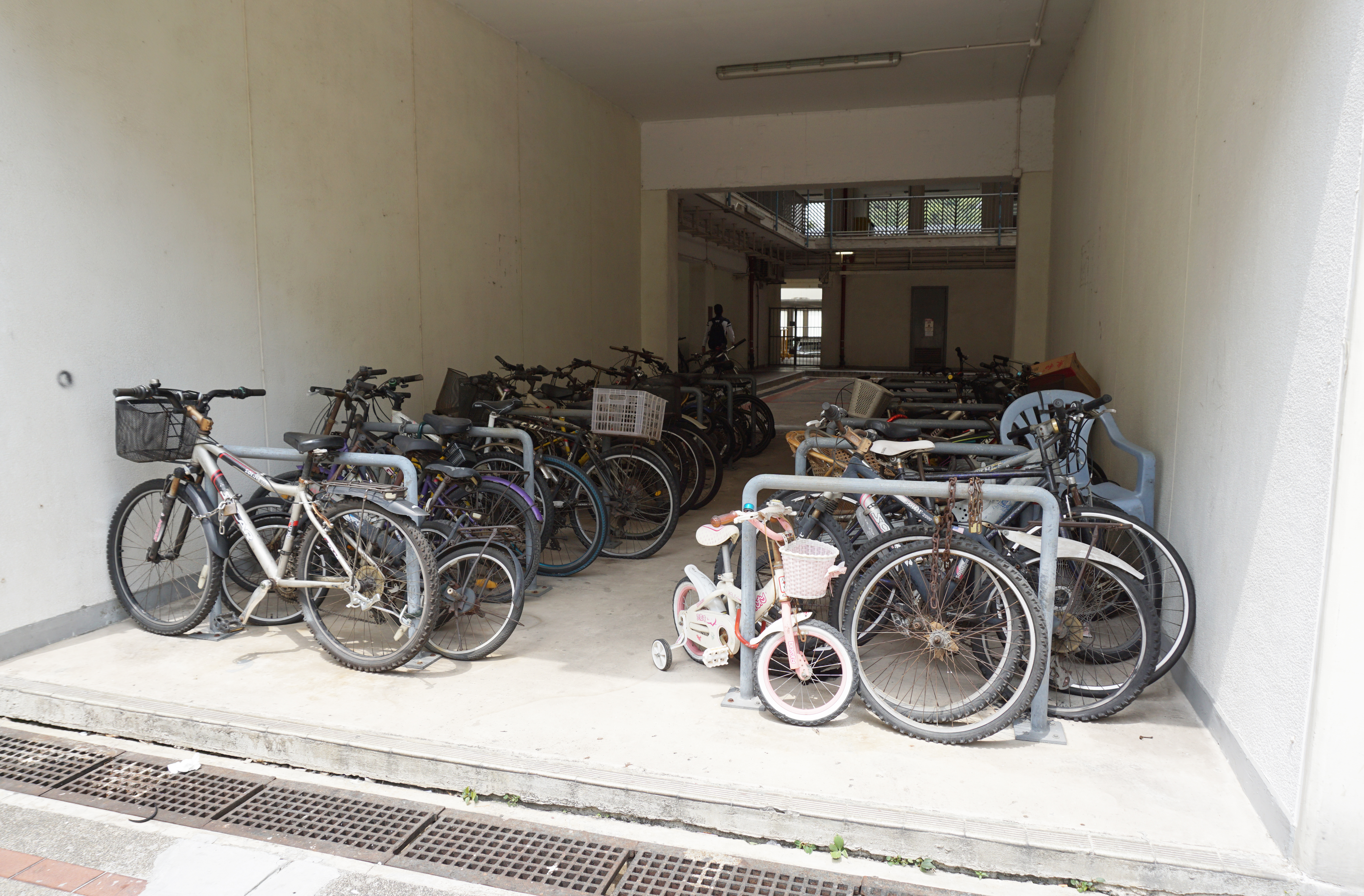 Wo Che Estate in Shatin, Hong Kong.